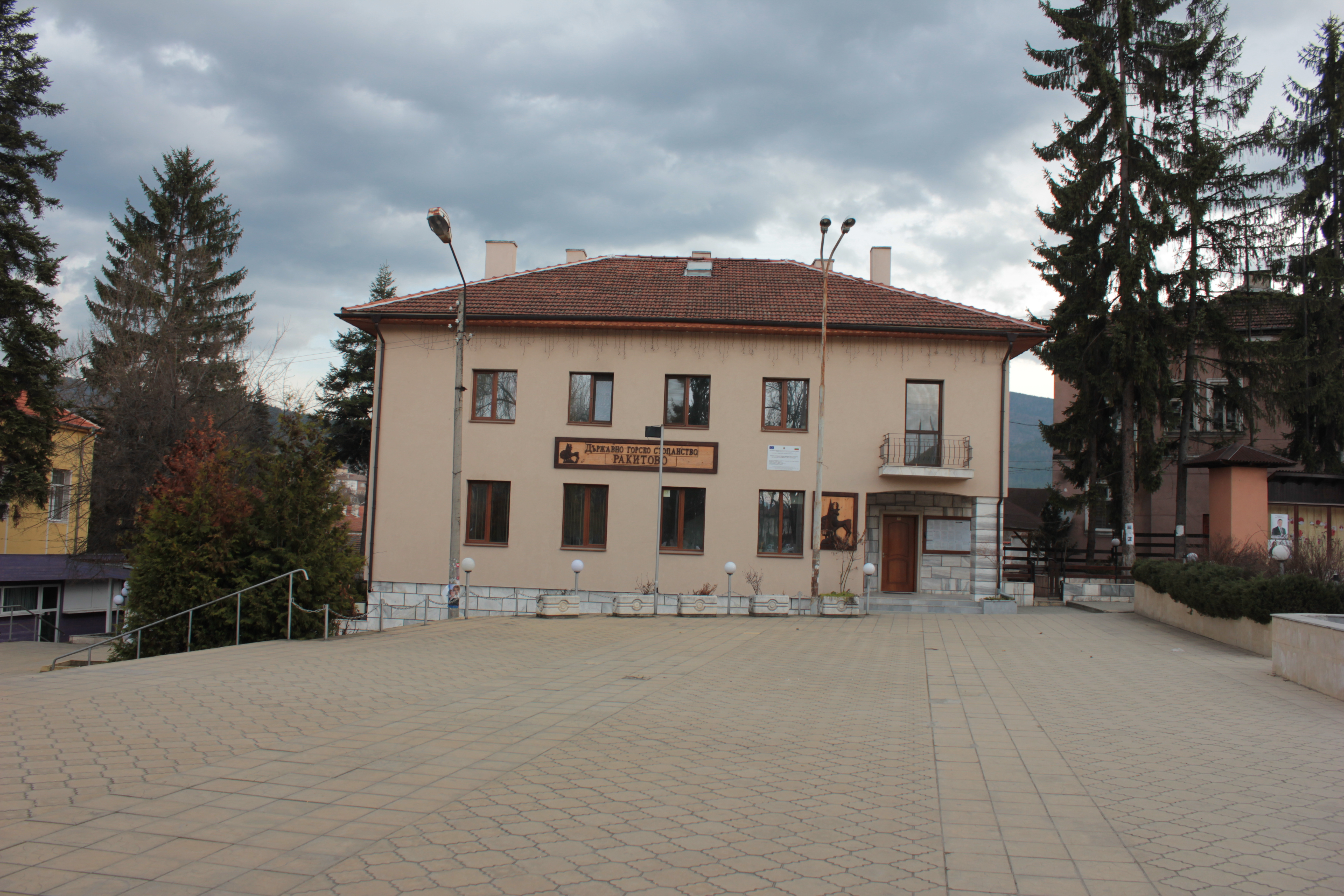 State forestry Rakitovo